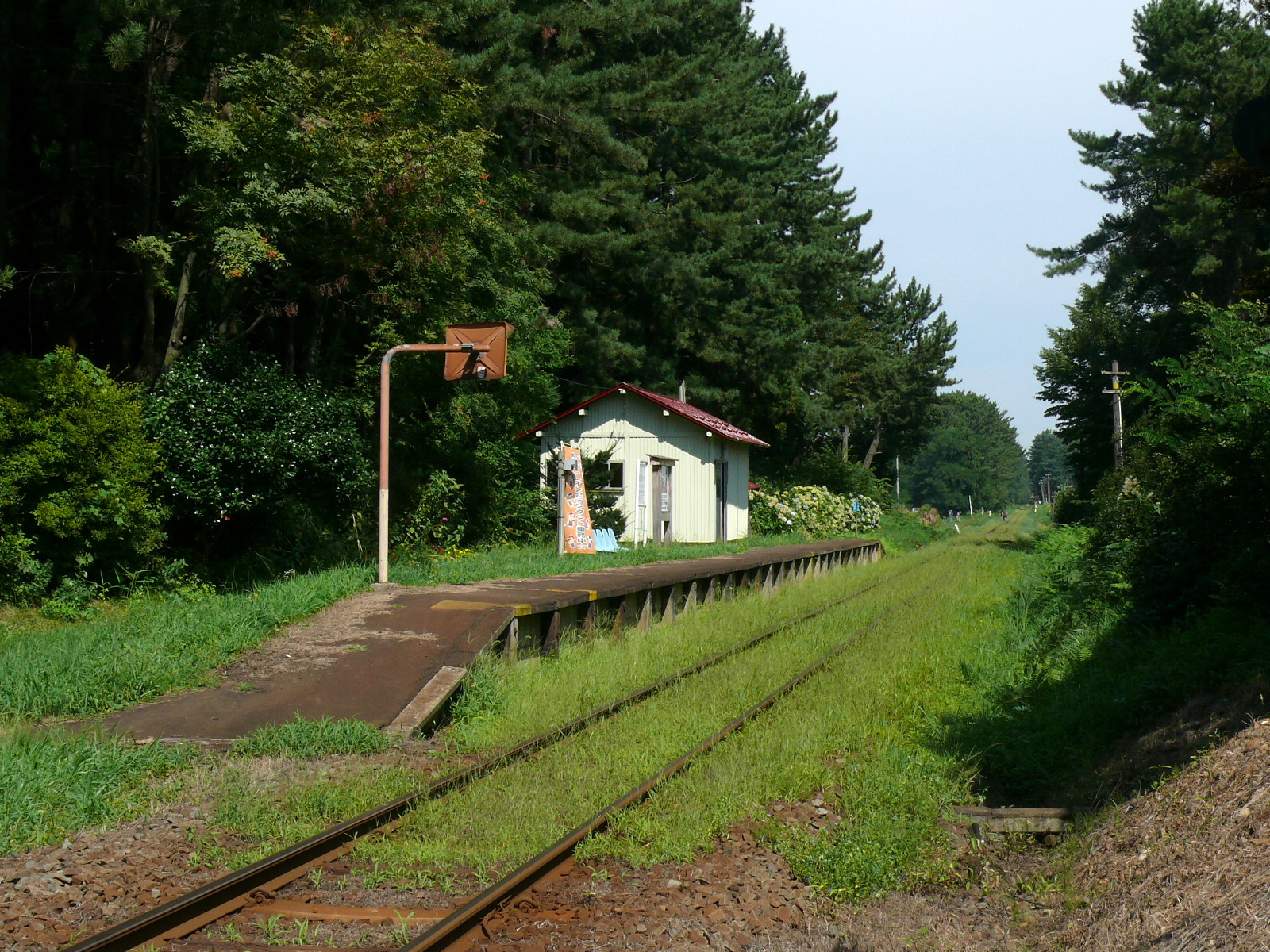 Bisyamon Station Premises. (Japan, Aomori Prefecture).